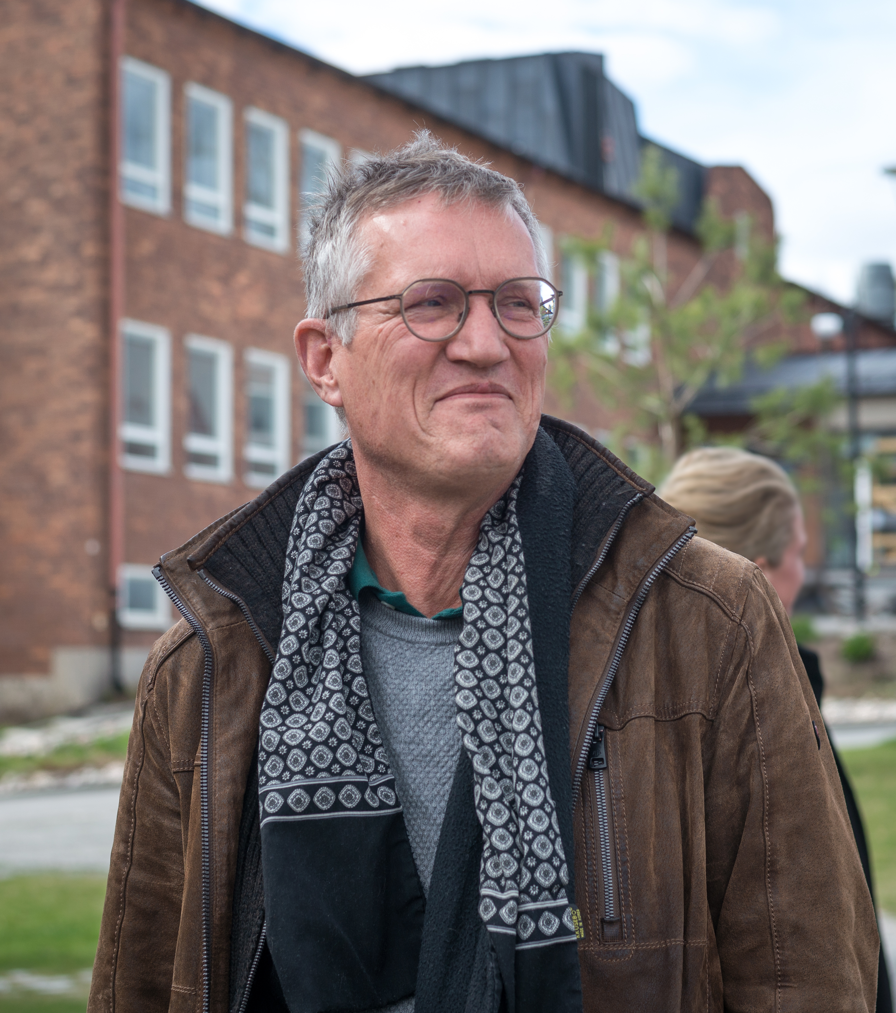 Anders Tegnell during the daily press conference outside the Karolinska Institute in Stockholm, Sweden.